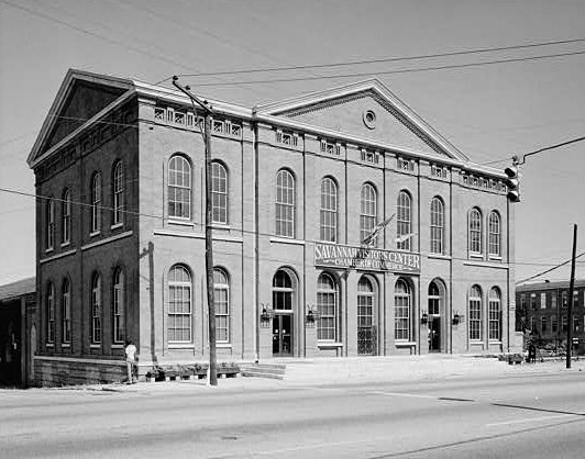 Central of Georgia Railway, Passenger Station, Savannah, Georgia. Photo cropped